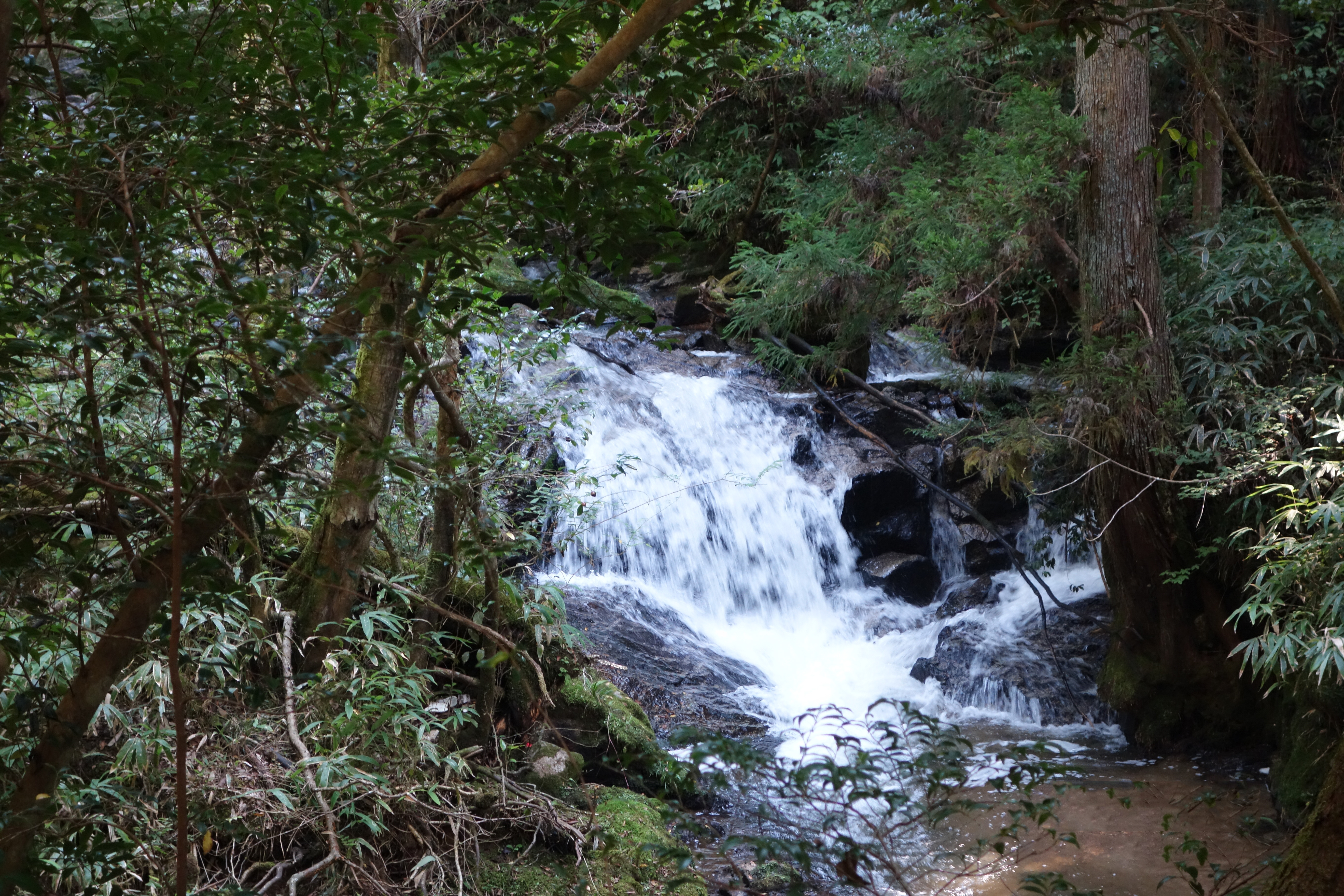 6.Hakufu no taki(waterfall) in Kōyama, Shigaraki, Koka, Shiga, Japan